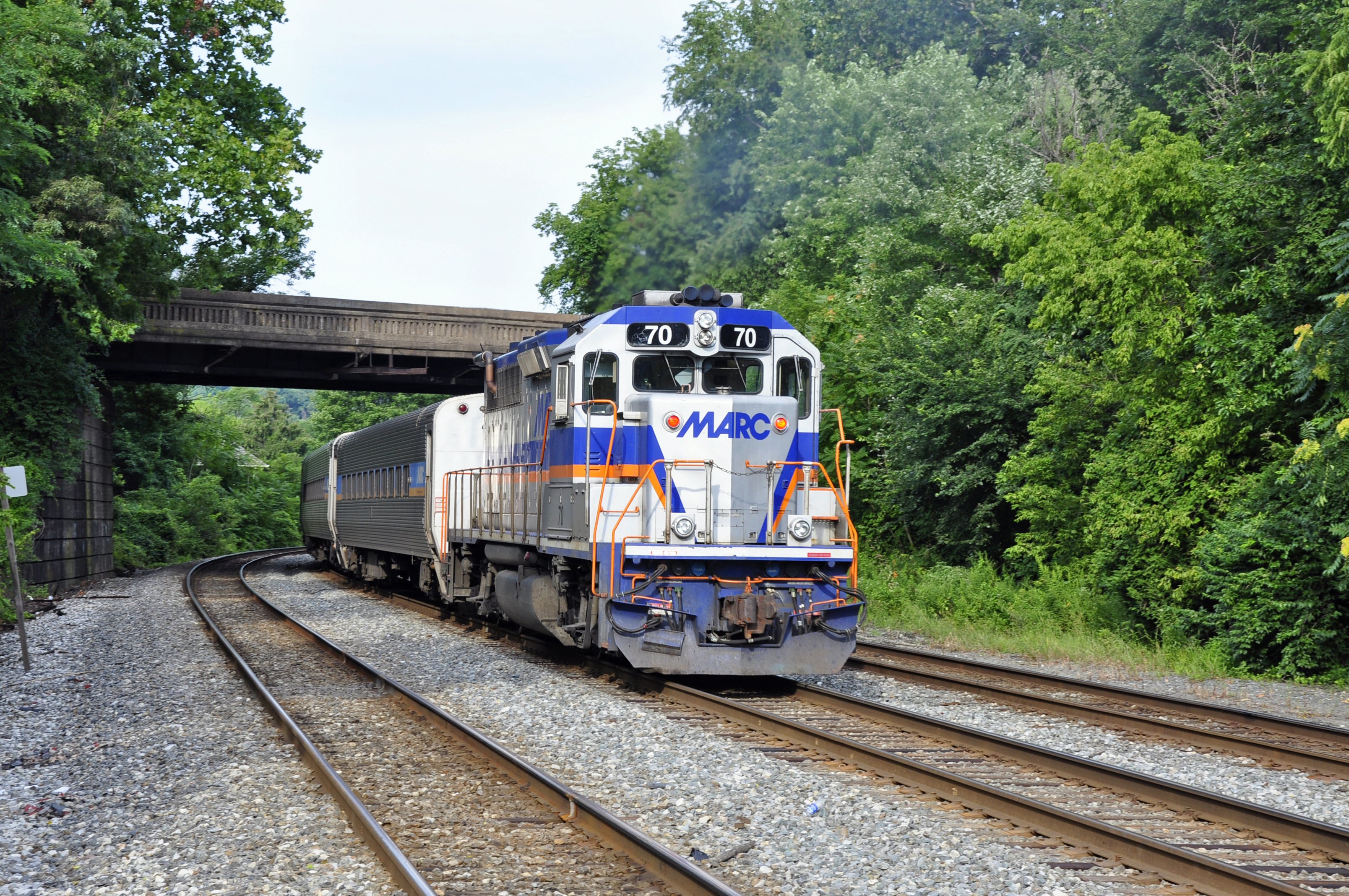 MARC 70(GP39H-2) ex- CR 3062(GP40), PC 3062(GP40), NYC 3062(GP40) on P851-07